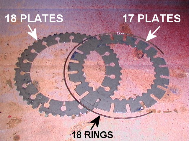 The inner plates of the VC.